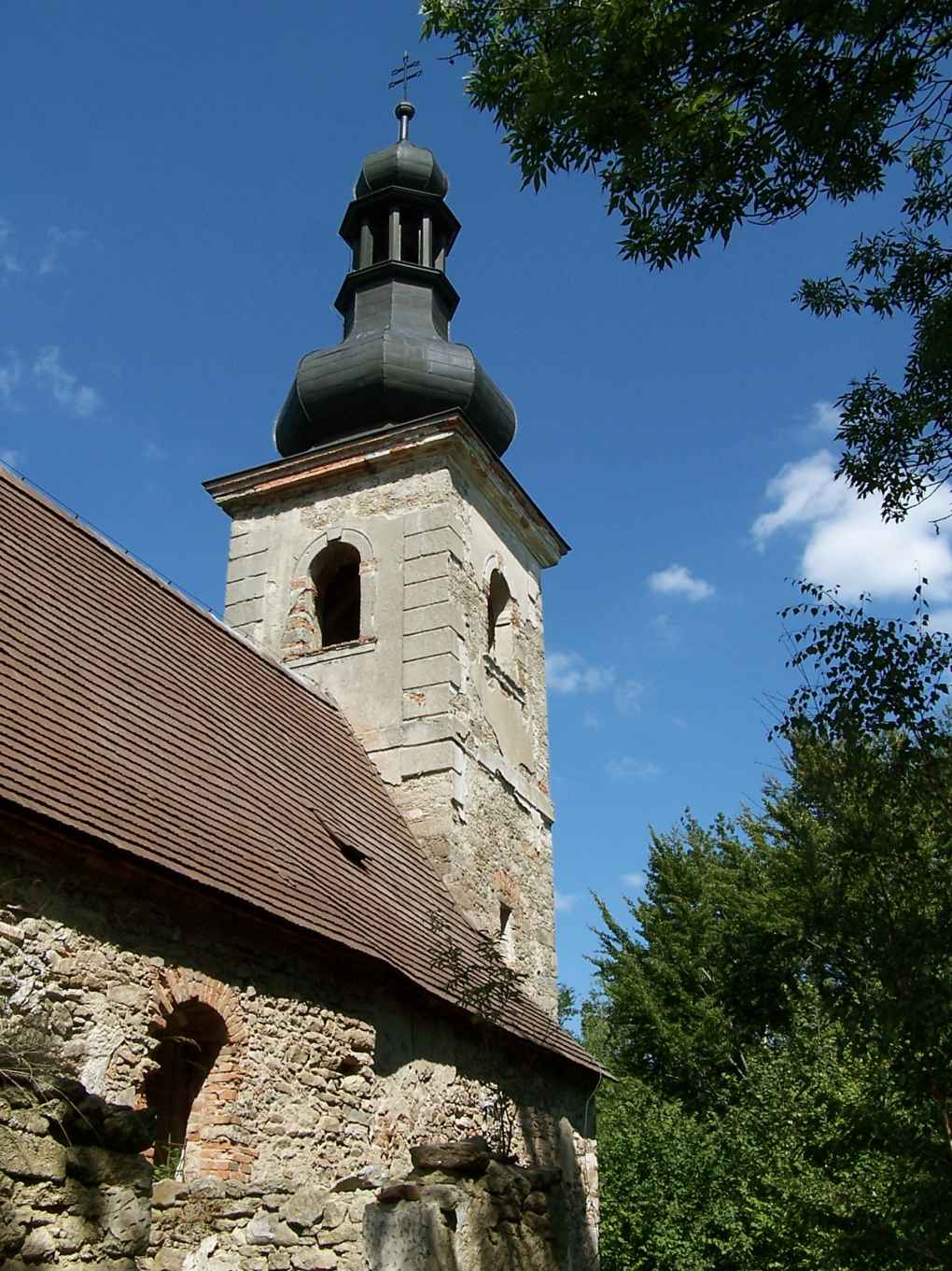 Church in Klení